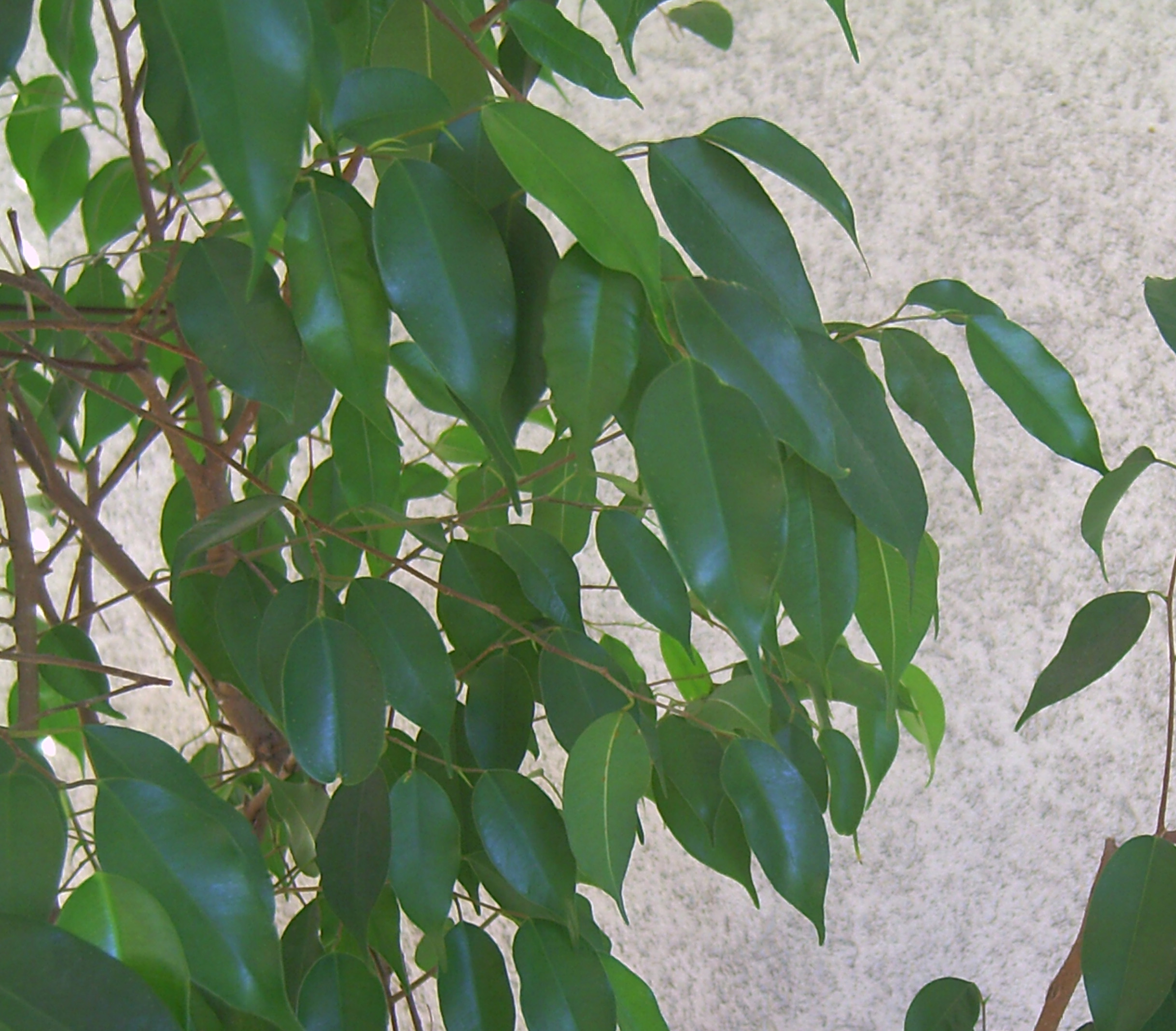 Leaves of Ficus benjamina